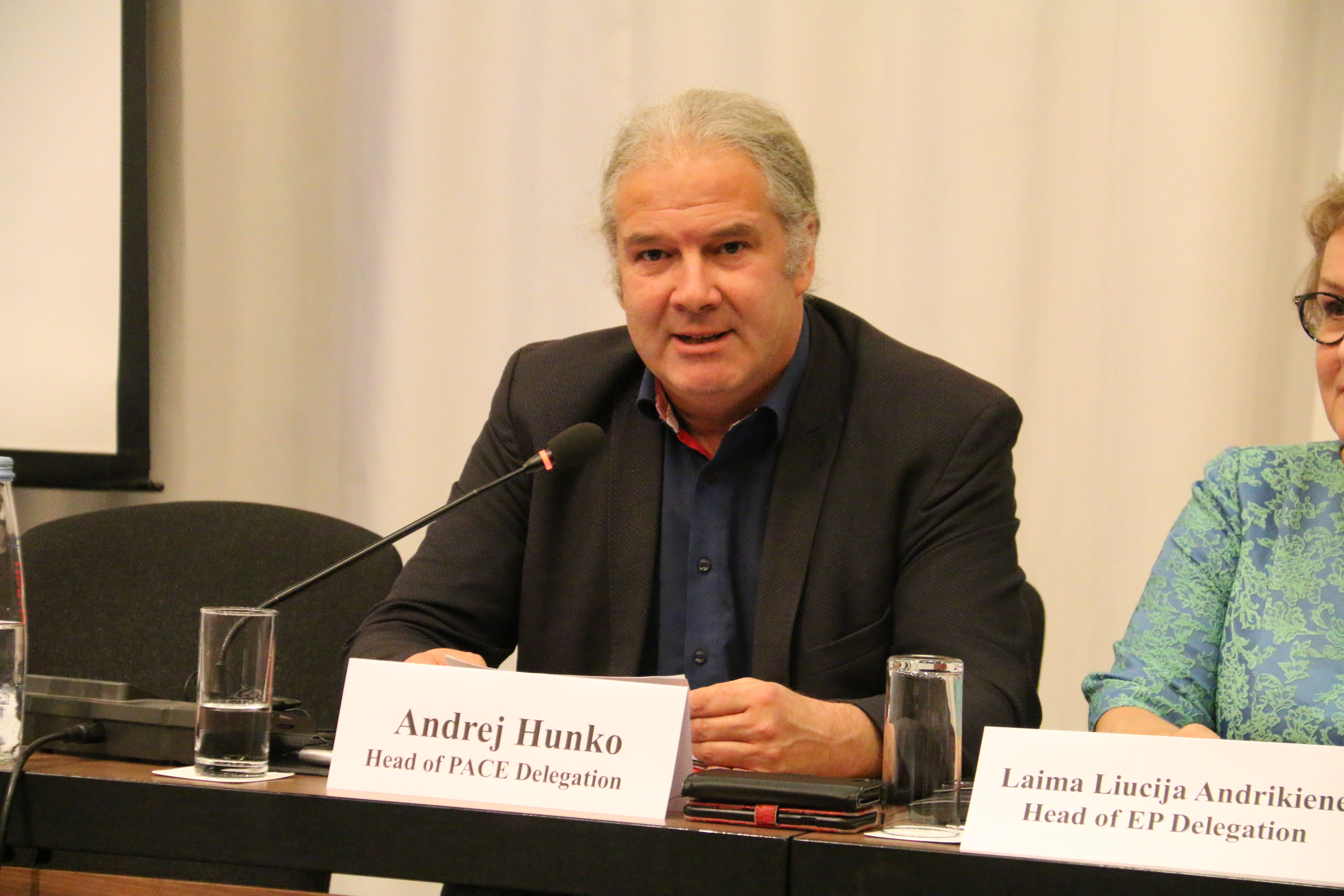 OSCE PA Election Observation Mission to Georgia, 26-29 October 2018